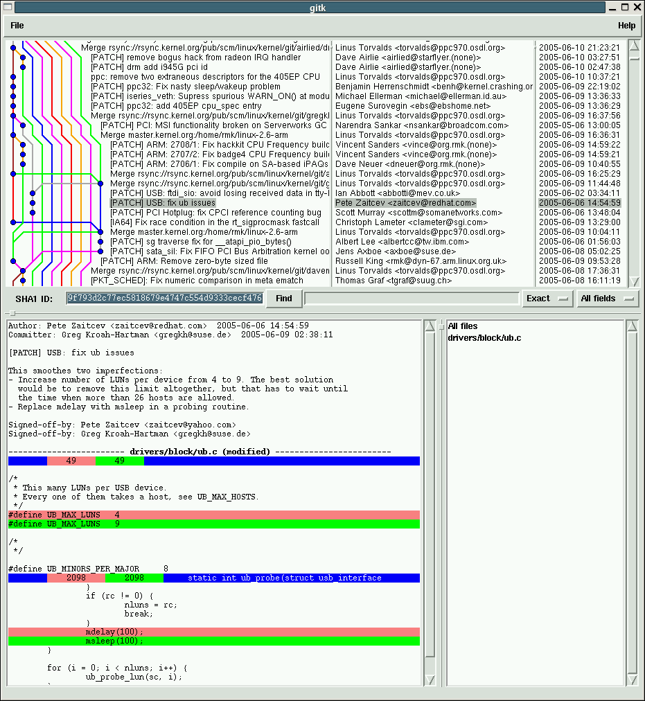 Graohical user inteface for gitk